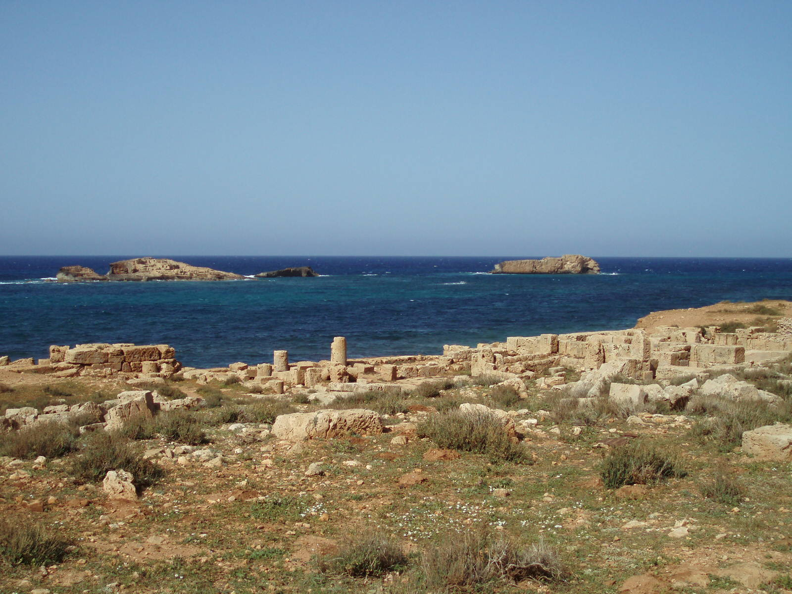 Apollonia, Libya